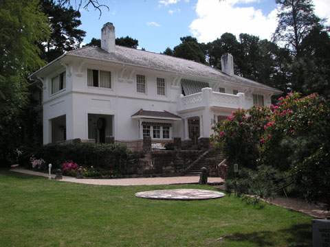 Leuralla, home of the NSW Toy and Railway Museum in Leura, NSW. Formerly the home of Australian politician 'Doc' Evatt.